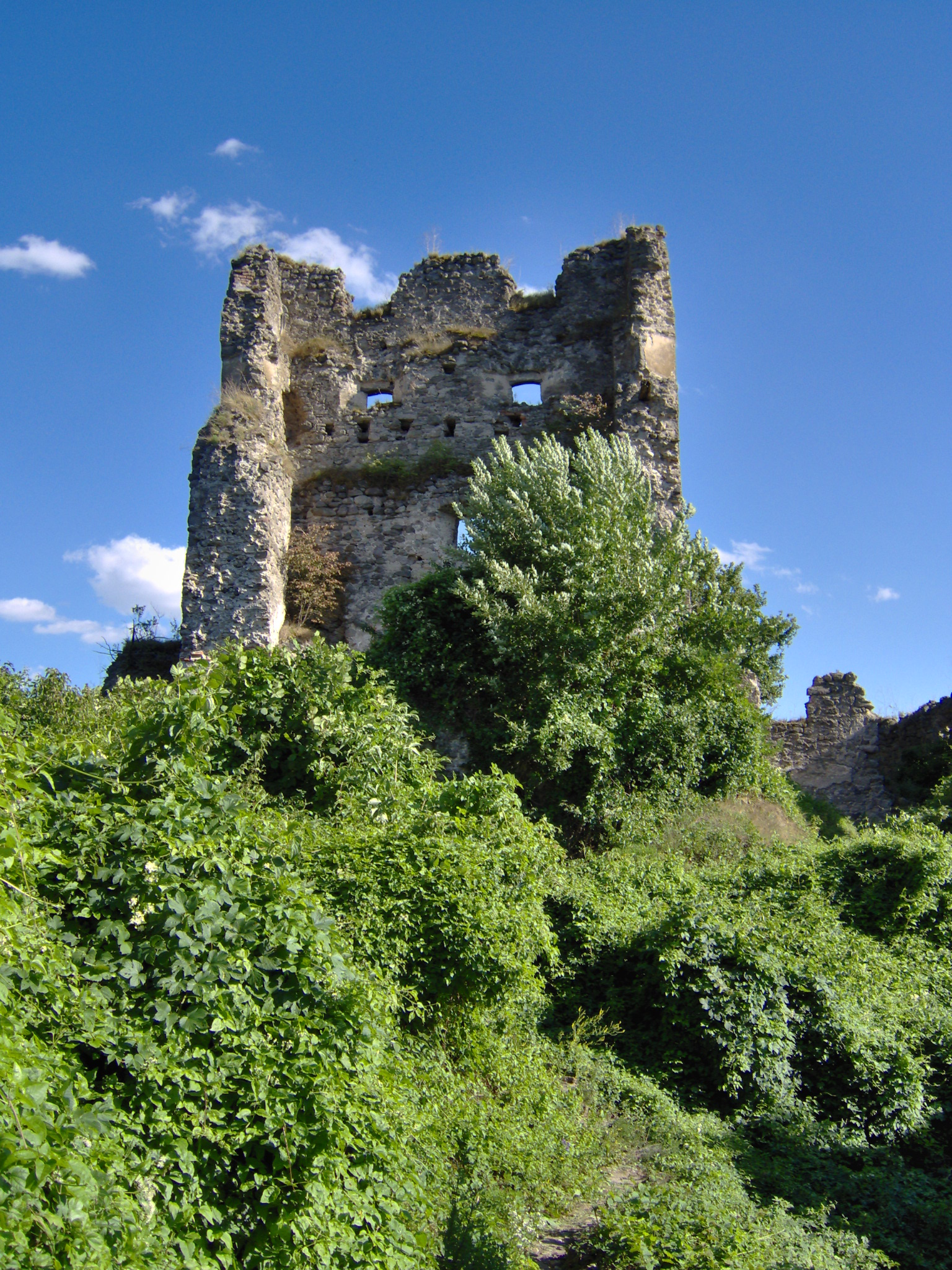 Tower in Čabraď Castle in Slovakia, Krupina District